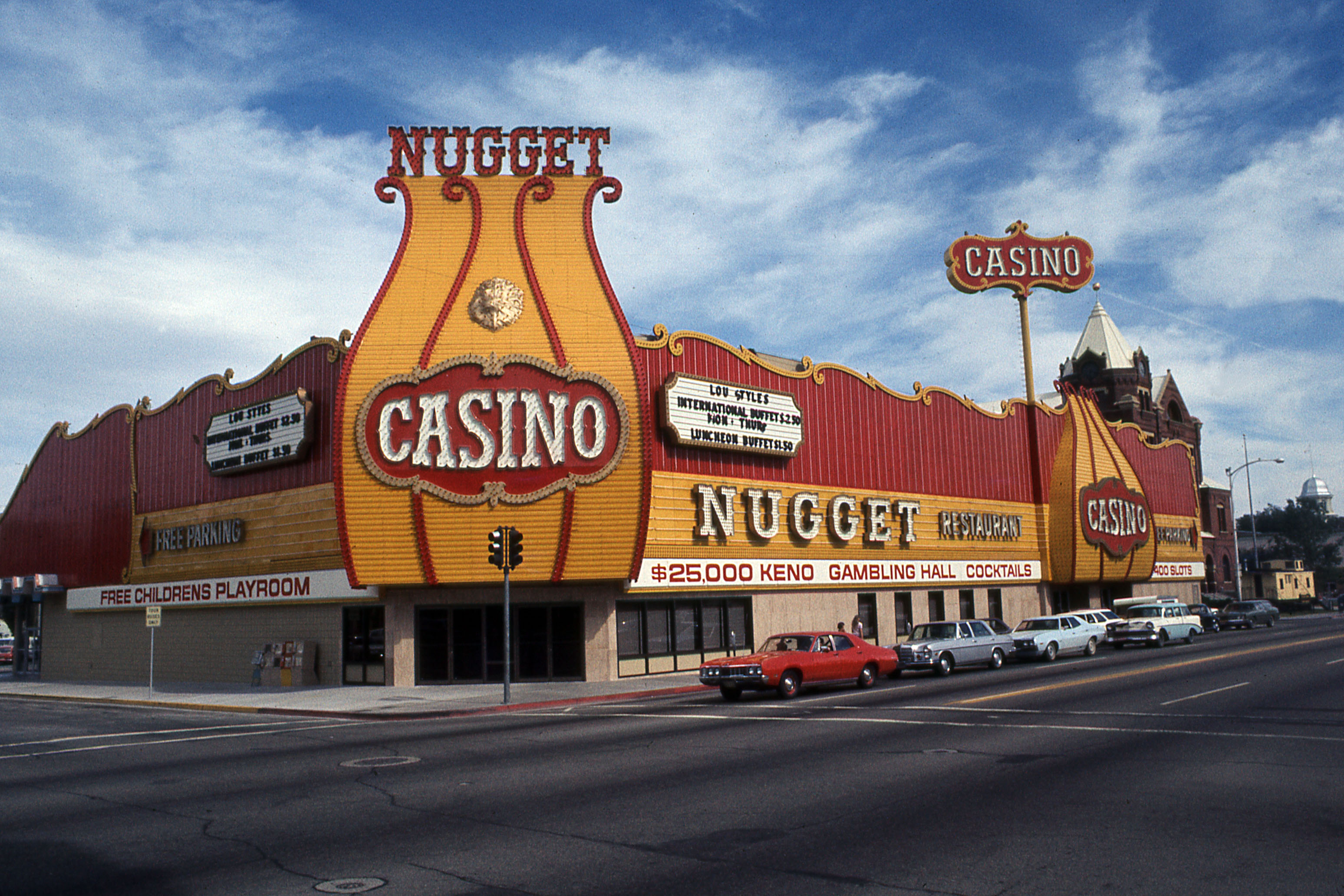 The Nugget Casino was opened by Richard Graves in 1954. This June 1973 photo shows a much expanded building located at 507 North Carson Street, Carson City, Nevada. From a 35 mm Ektachrome transparency taken with a Yashica TL Electro SLR camera. Scanned with an Epson Perfection V500 Photo in August 2012. A Short History of Carson City by Richard Moreno